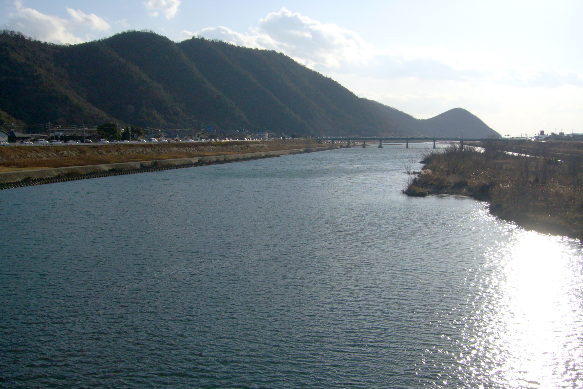 Chikusa River at Sakoshi in Ako, Hyogo prefecture, Japan